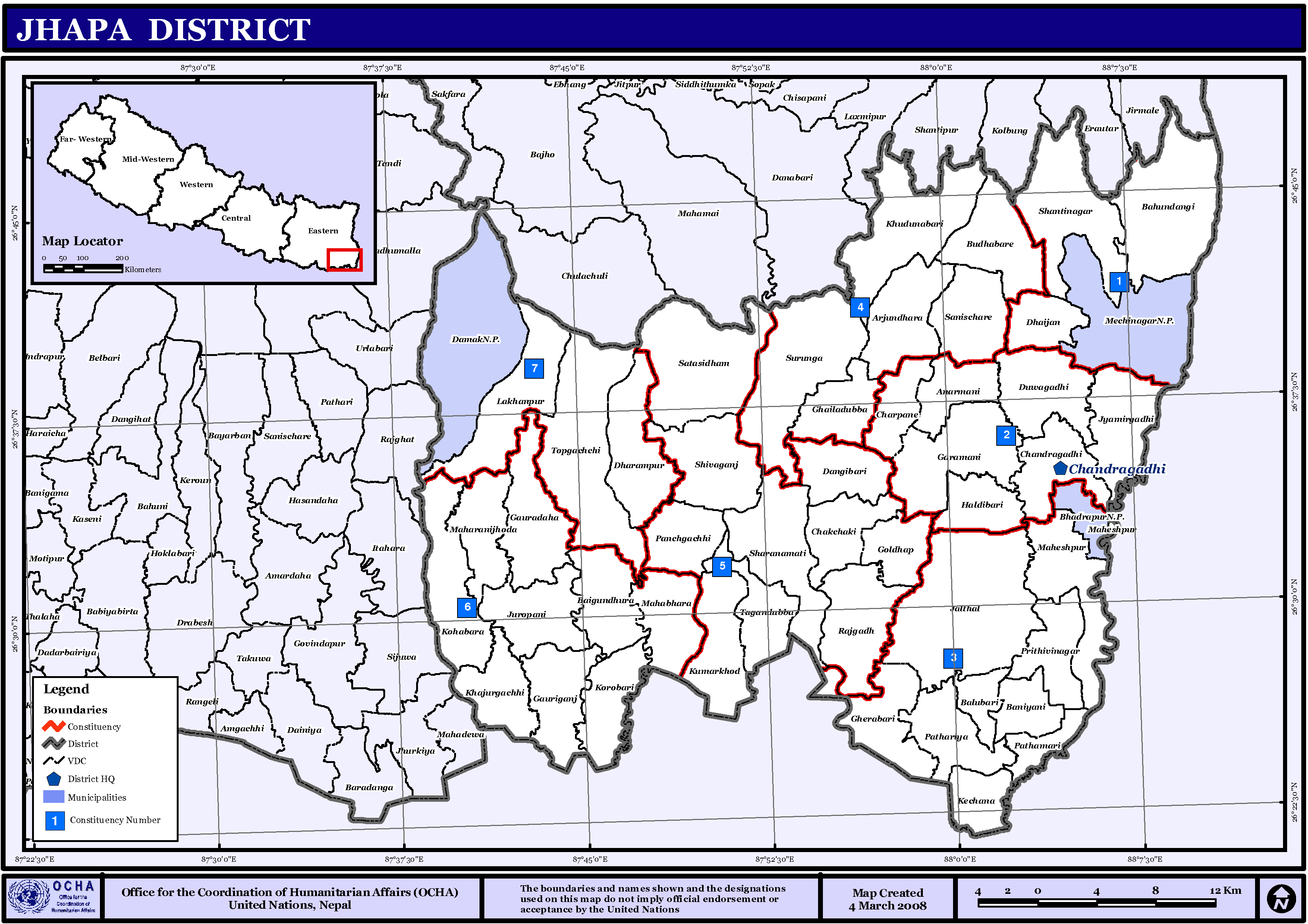 Map displaying Village Development Committees in Jhapa District, Nepal